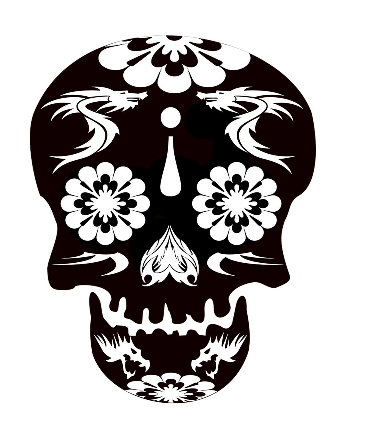 Skull